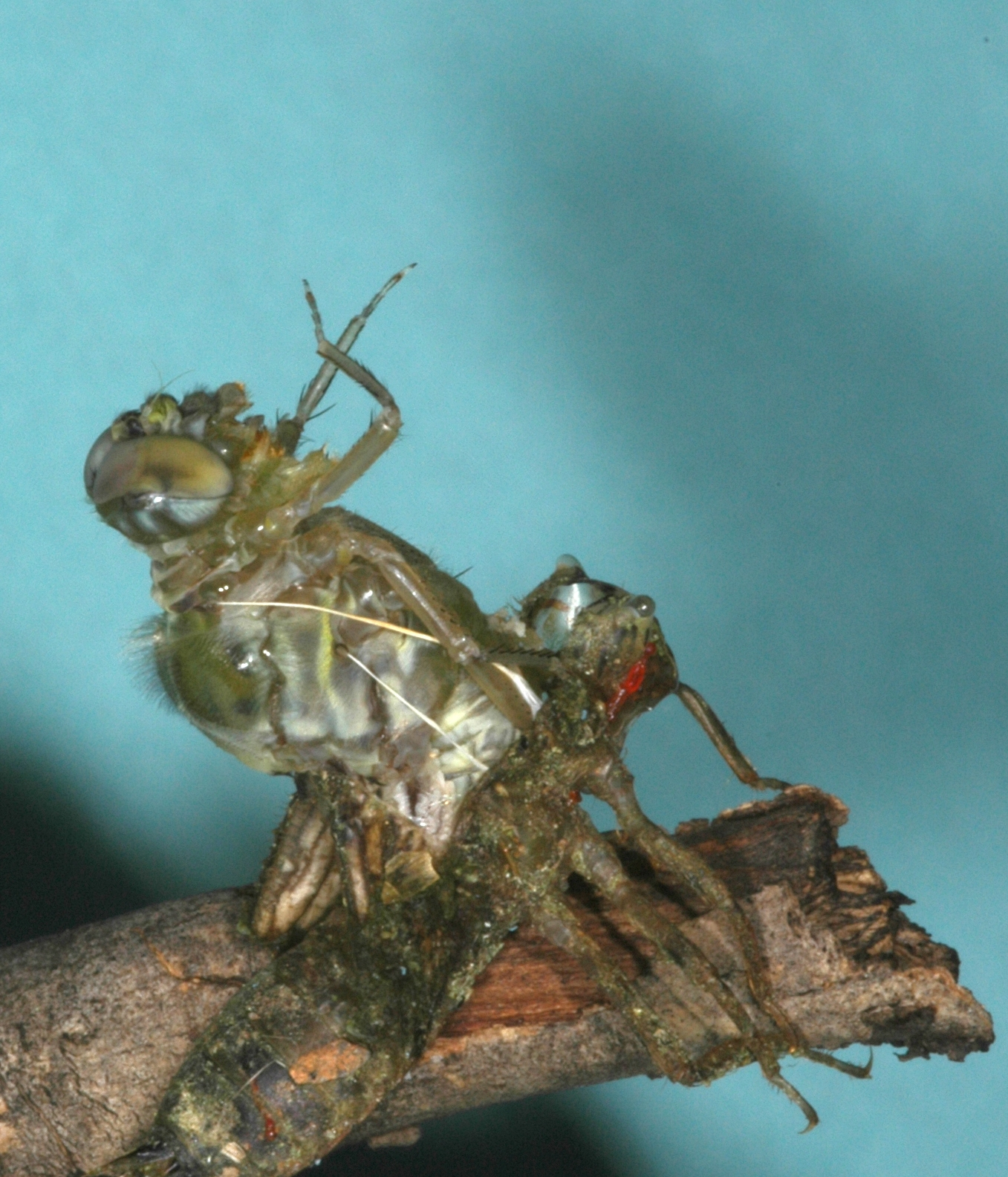 Dragonfly (unidentified species) in process of metamorphosis. The adult is undergoing its final moult. Image has been rotated 90° for easier viewing.